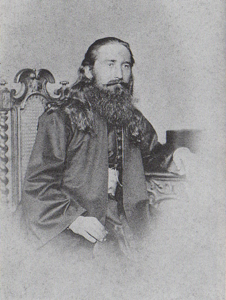 Depicted person: Q12758482